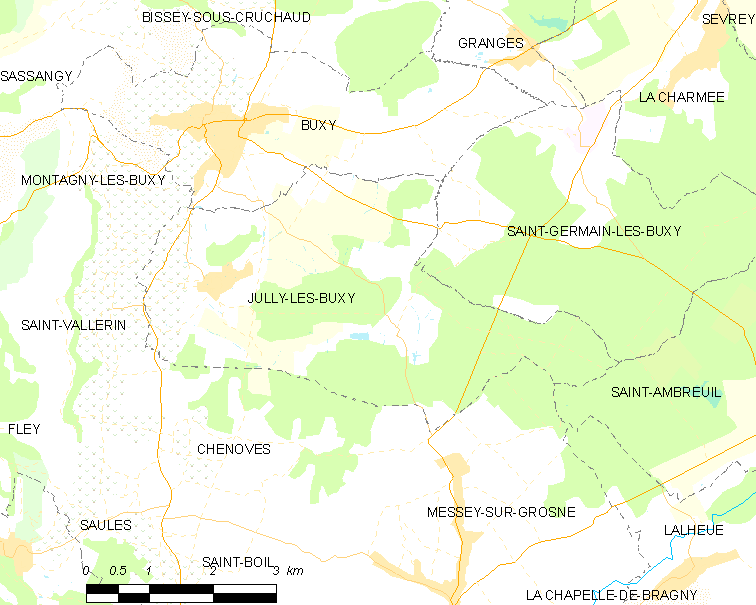 Map of French municipality